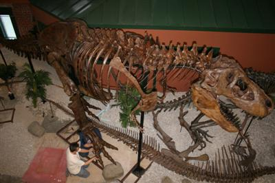 Ivan the T-Rex